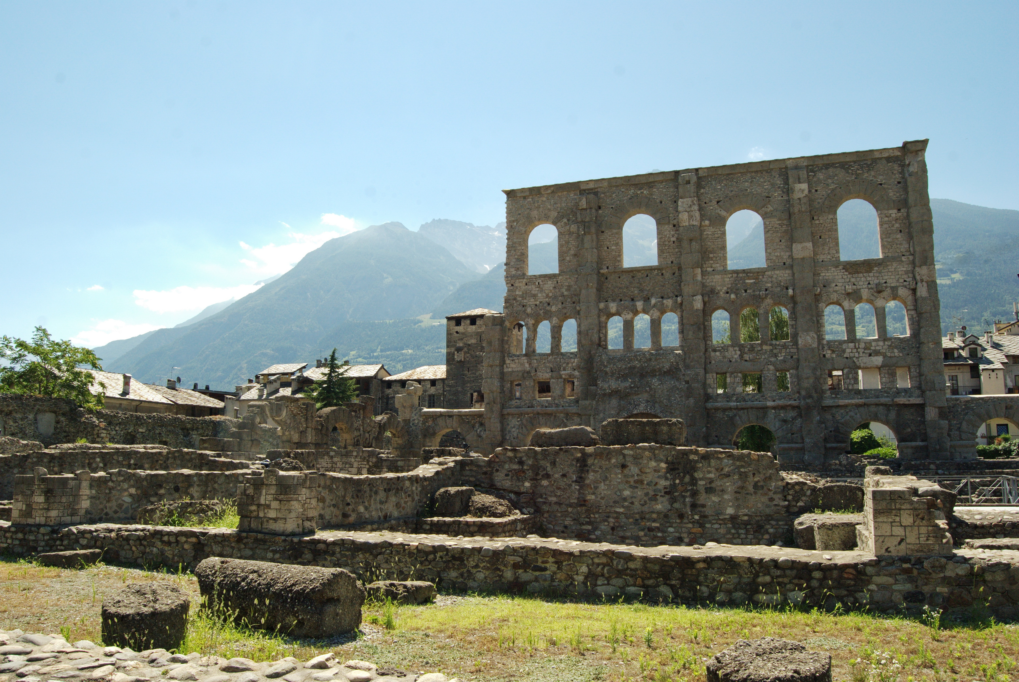 The roman theatre in Aosta/Aoste (Italy)